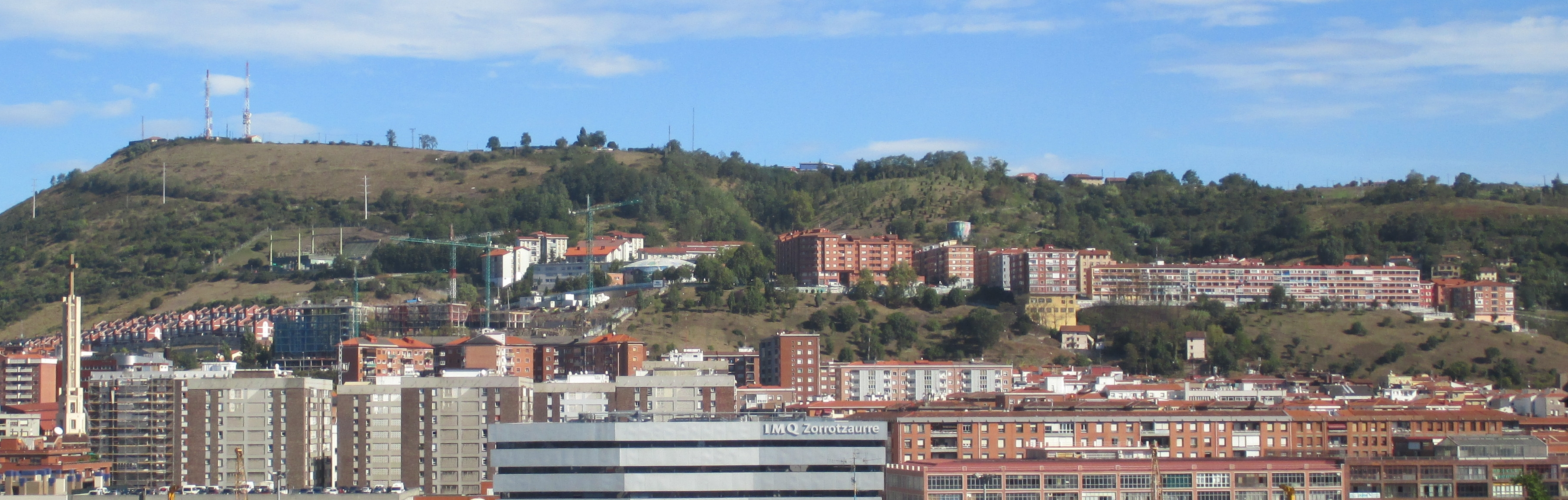 Arangoiti (Deusto-Deustua) as seen from Basurto-Basurtu, Bilbao.